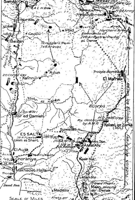 Map shows position of Chaytor's Force on 25 September 1918